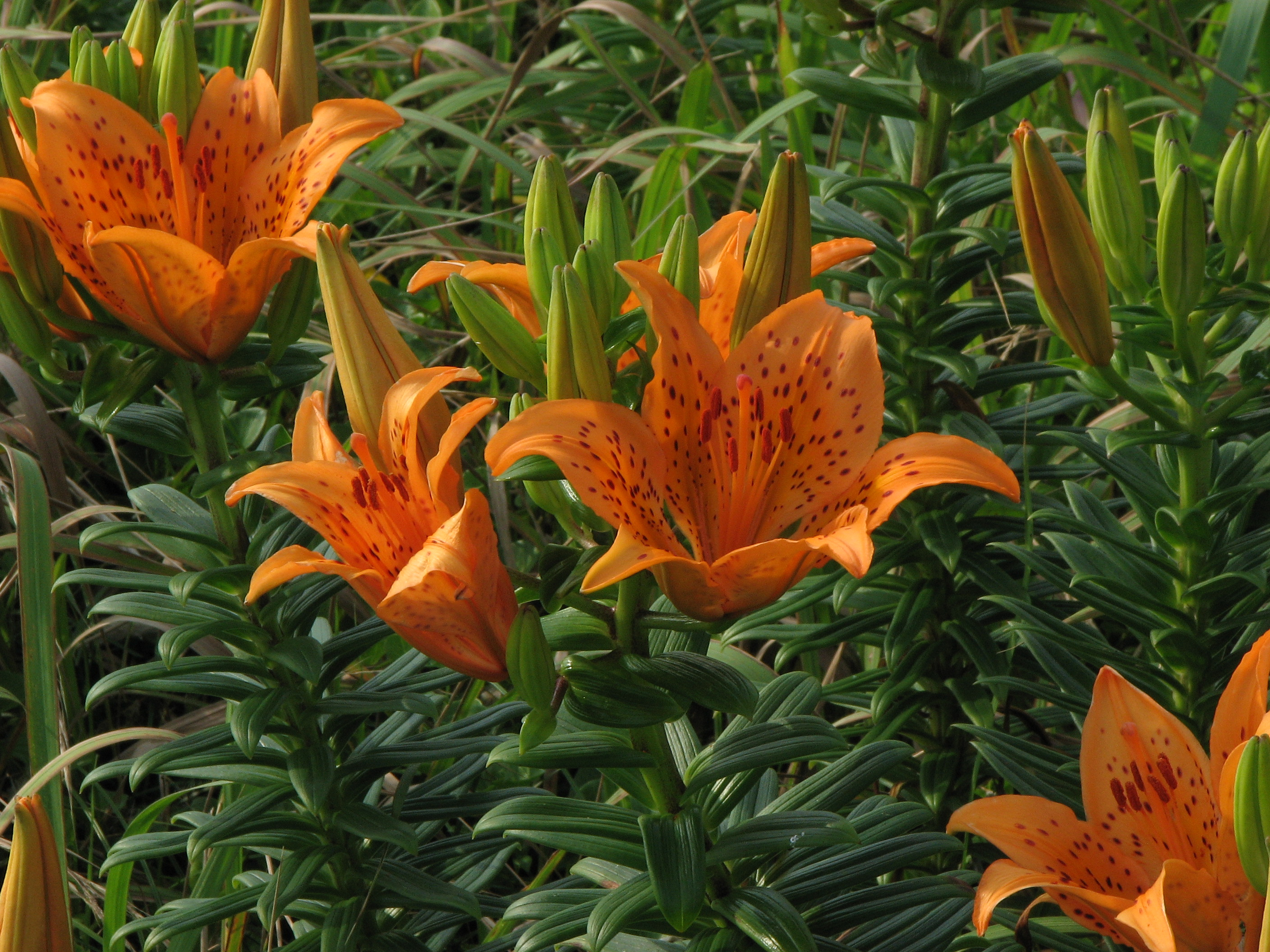 Lilium maculatum flower at Taito coastal plant colony. (Chiba pref, Japan)